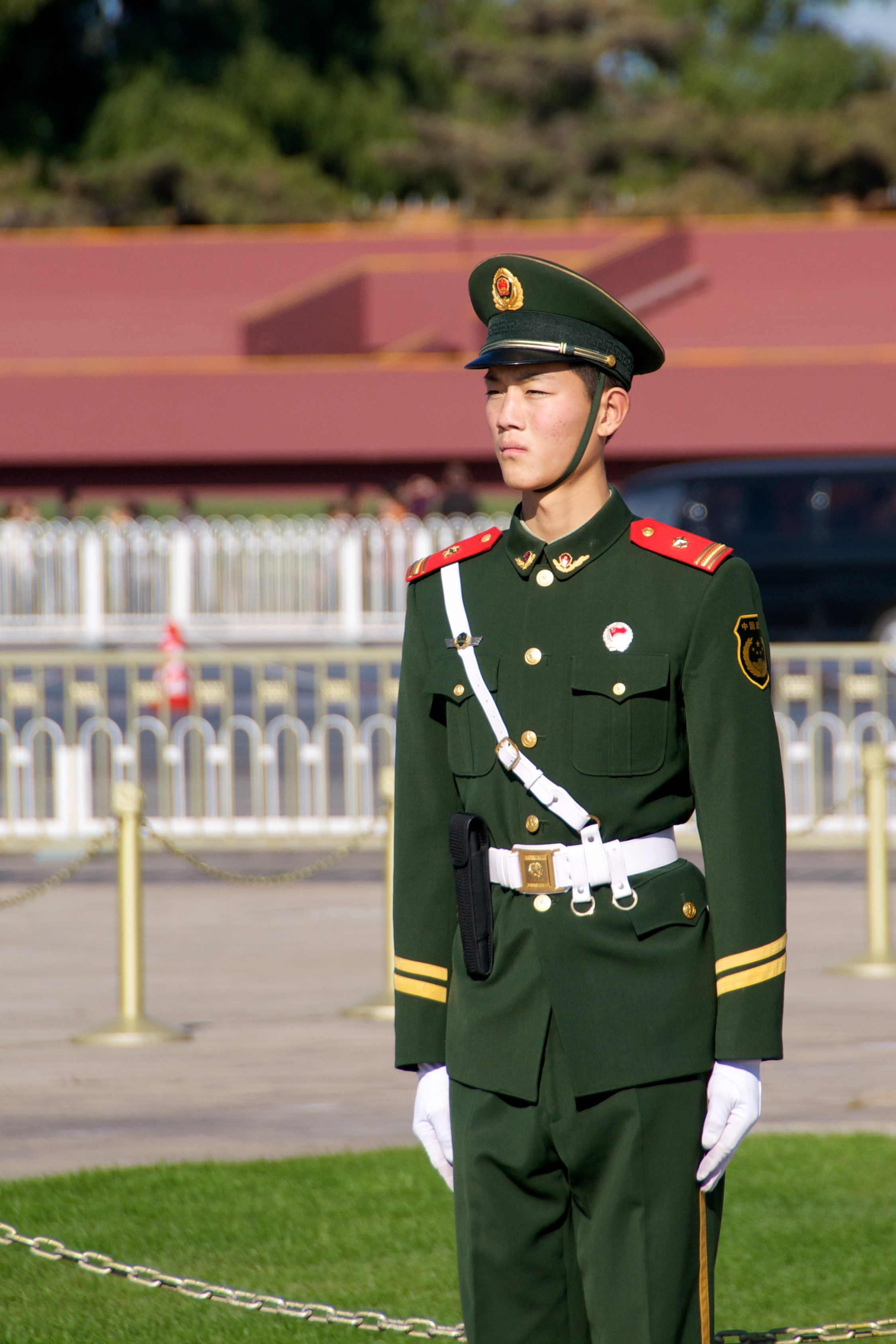 Tian'anmen Square